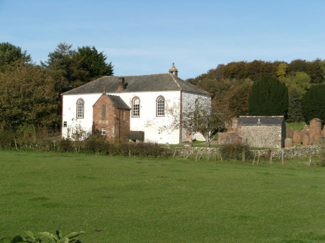 Torthorwald Kirk The church of Torthorwald stands on rising ground at the edge of the village, with an extensive view over Dumfries and the Nith Valley. The present building dates from 1752, and is built adjacent to the site of an earlier church. The missionary, Dr John G Paton, who grew up in the parish, is commemorated in the gates to the church. His family grave is in the churchyard.